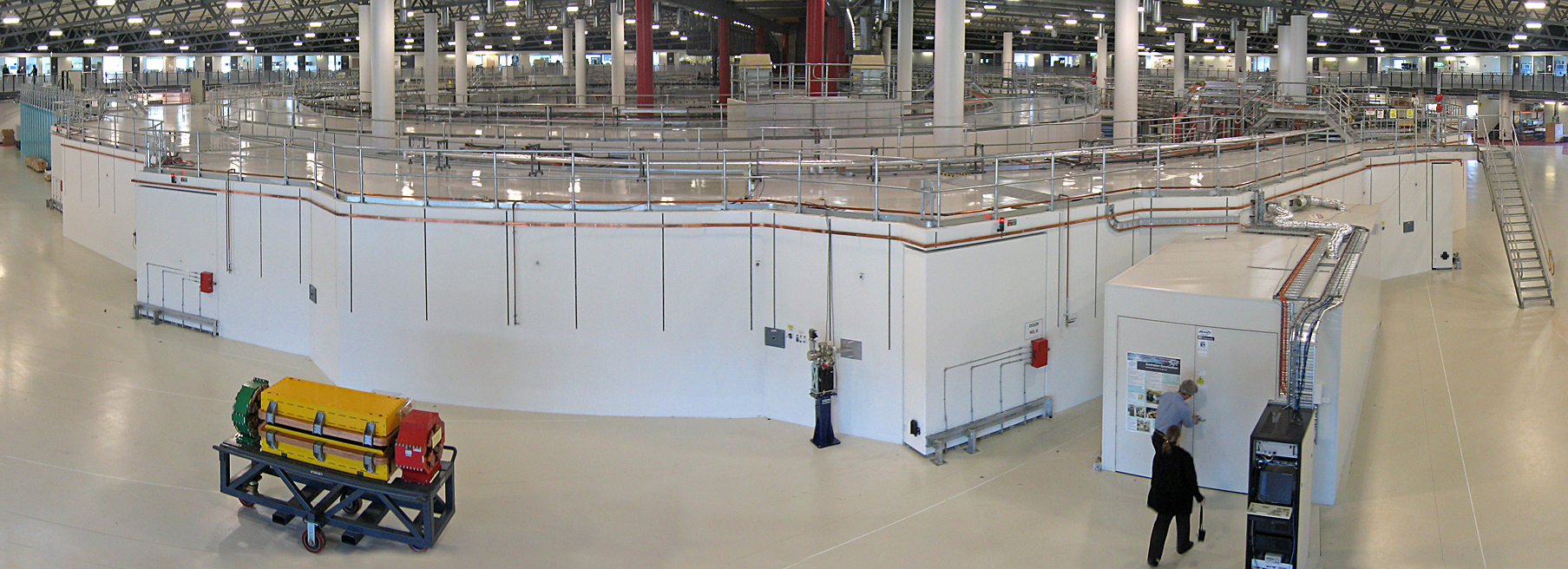 A panoramic view across the interior of the Australian Synchrotron, Clayton, Victoria. The larger circular building surrounds the 216m circumference storage ring. In the middle can be seen a smaller circular building; this is the 130m circumference booster ring. The metal stairway at right leads across the storage ring down to the linac and booster ring. The hutches coming off the storage ring are the experimental endstations at the end of the beamlines. The yellow, green and red magnets on the trolley are a demonstration of the bending and focussing magnets used in the storage ring to produce the synchrotron radiation and maintain the electron beam.